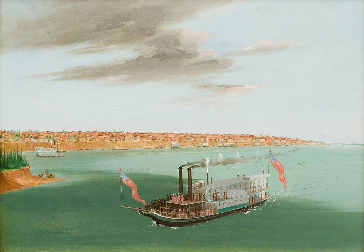 The Yellow-Stone steamboat at St. Louis, c. 1832-1836.